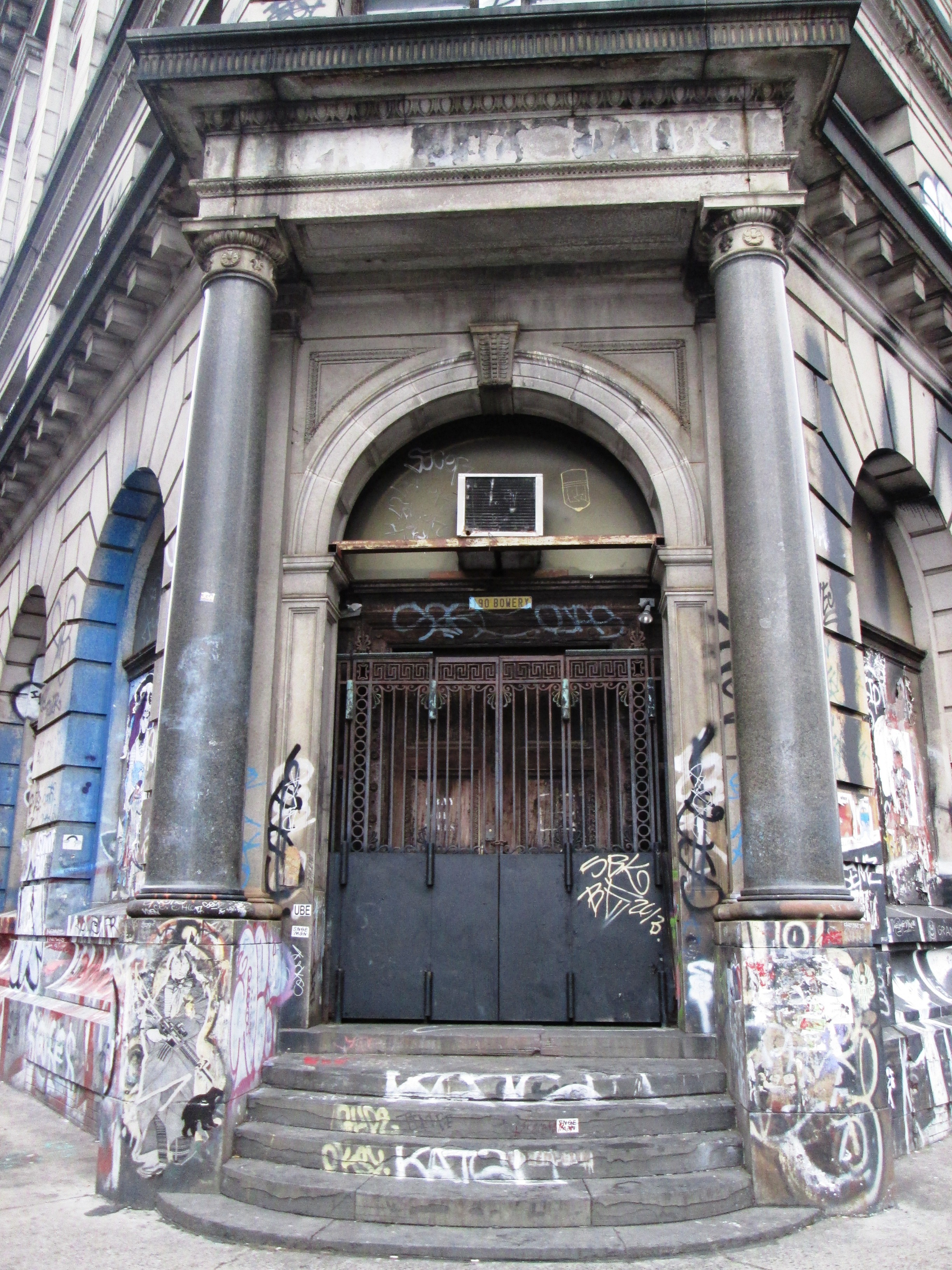 The Germania Bank Building, located at 190 Bowery at the corner of Spring Street in the Bowery neighborhood of Manhattan, New York City, was built in 1898-99 and was designed by Robert Maynicke in the Renaissance Revival style. It is a New York City landmark. (Source: Guide to NYC Landmarks (4th ed.))